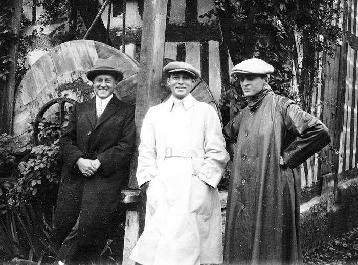 L. to R. : Rolf de Maré, Rudolph Valentino & André Daven in France - publicity still